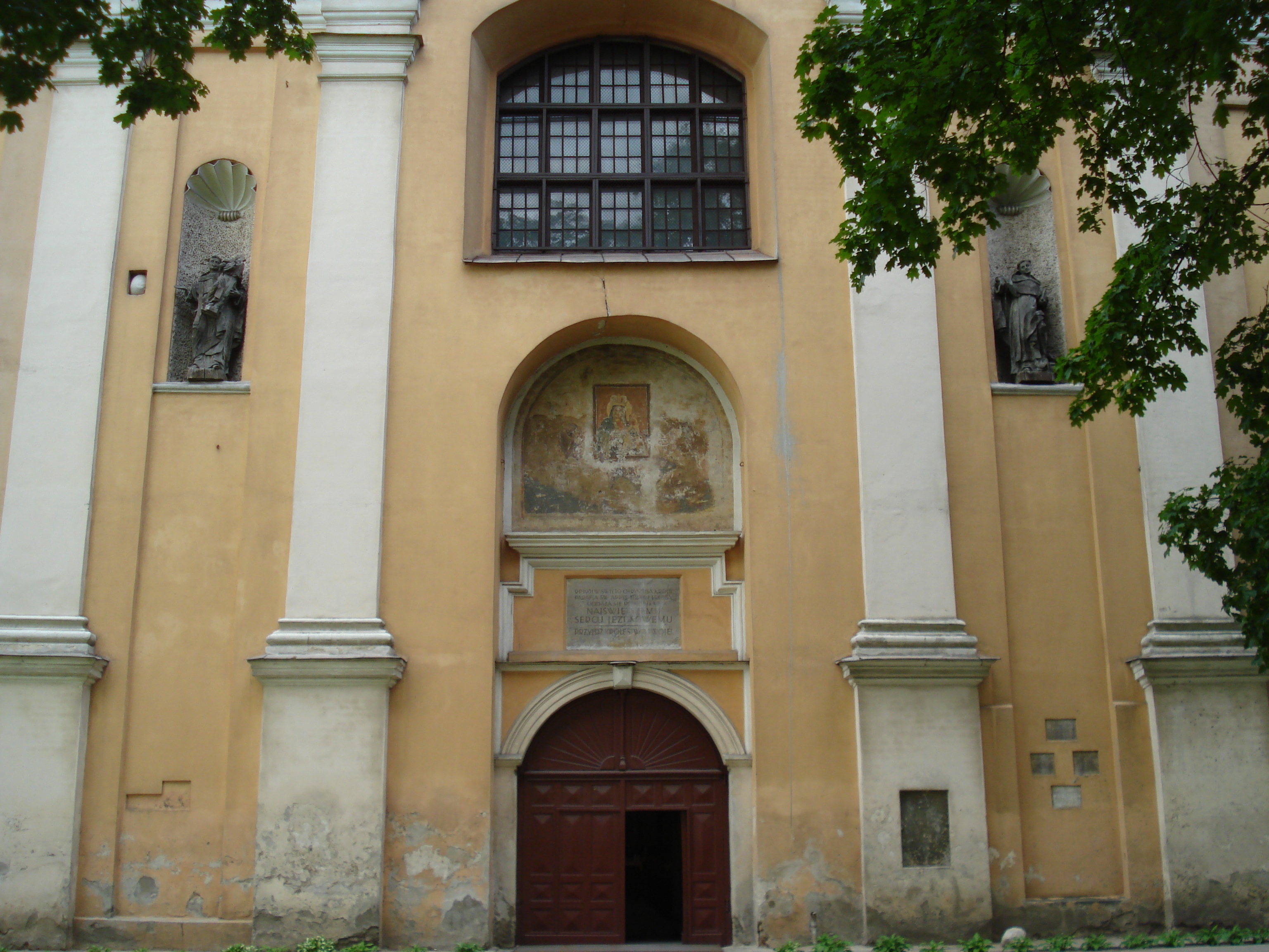 The Church of St. Jacob and St. Philip in Vilnius